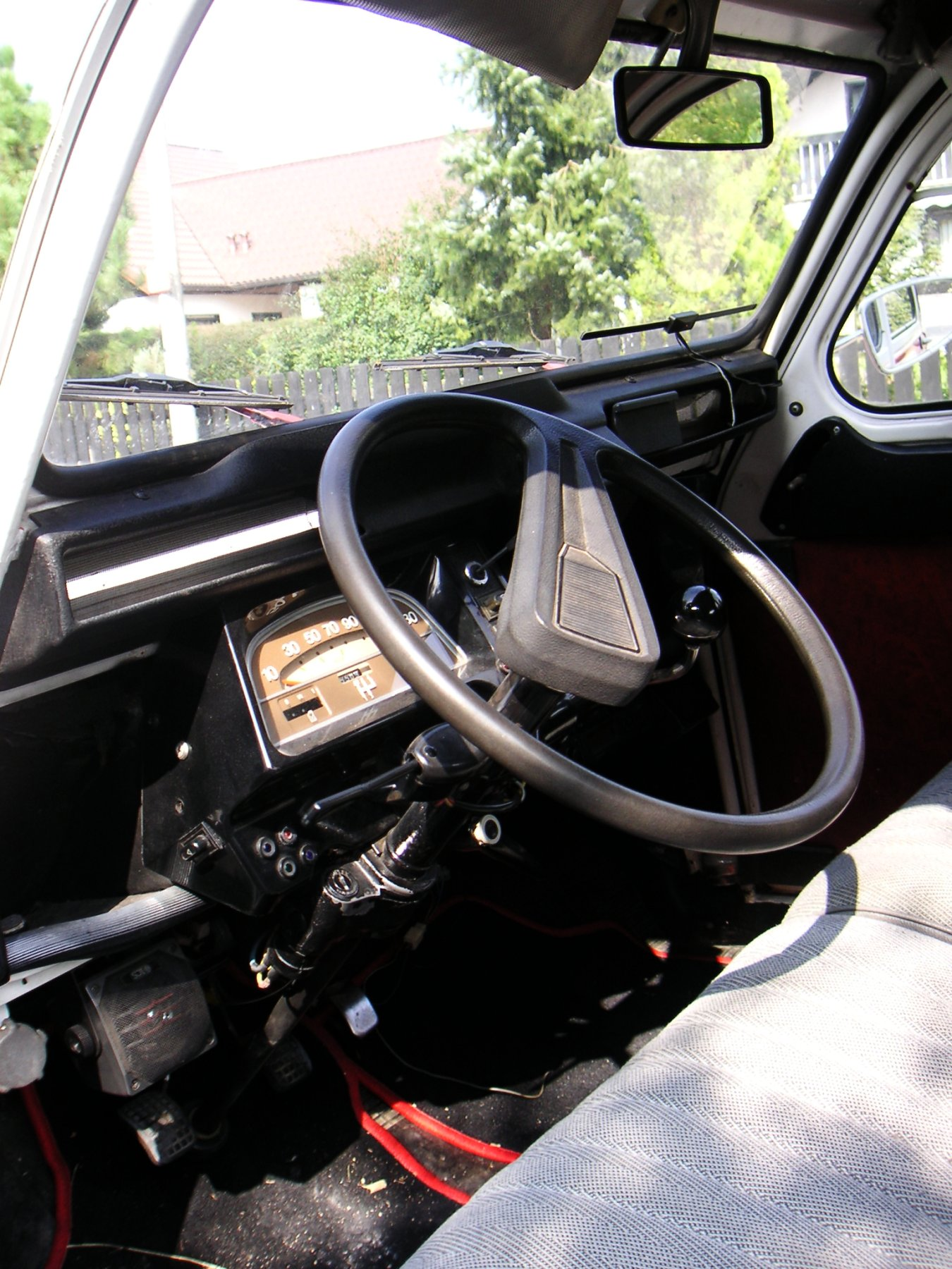 Citroën 2CV, cockpit view.